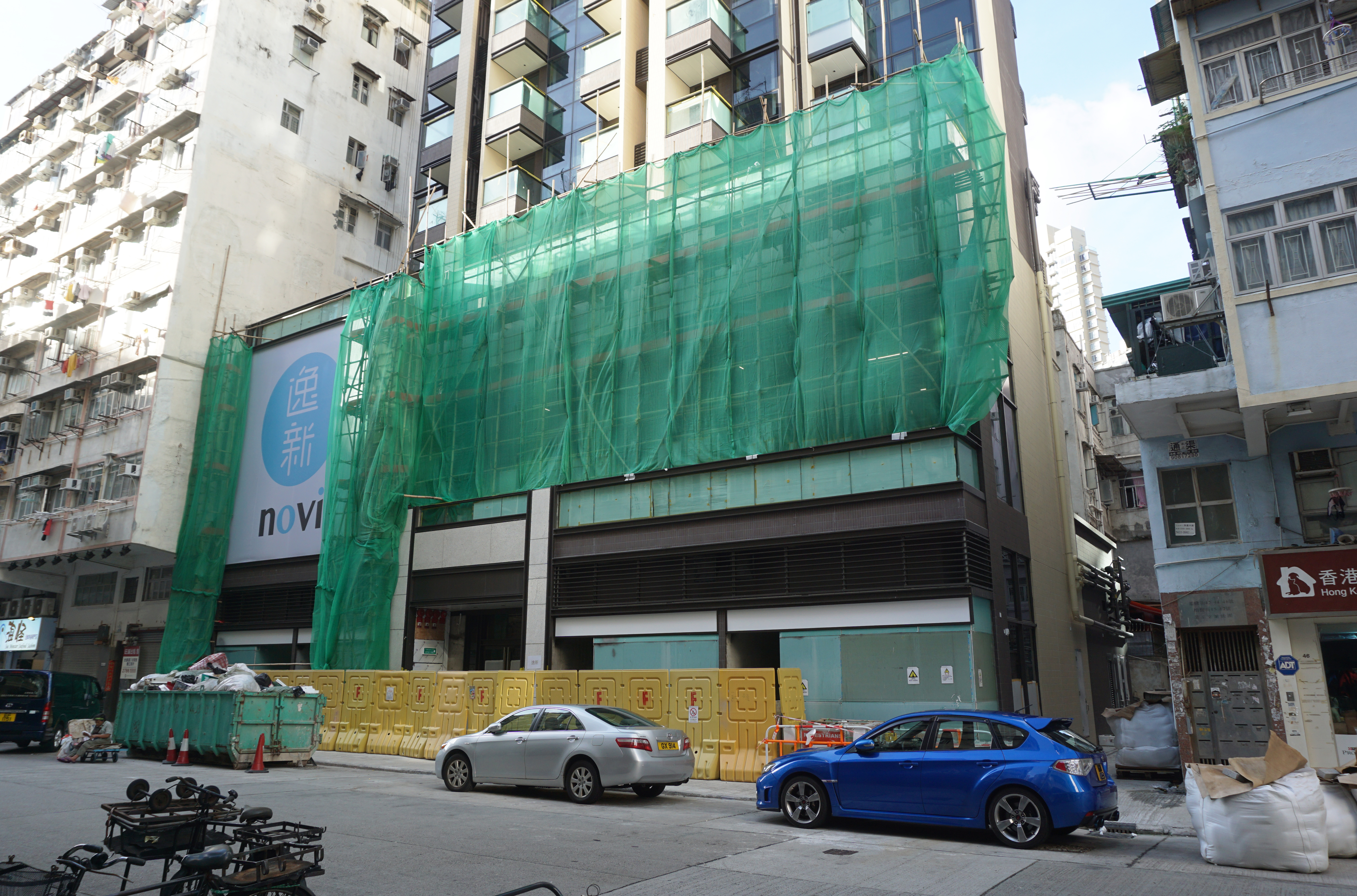 Novi in Prince Edward, Hong Kong.